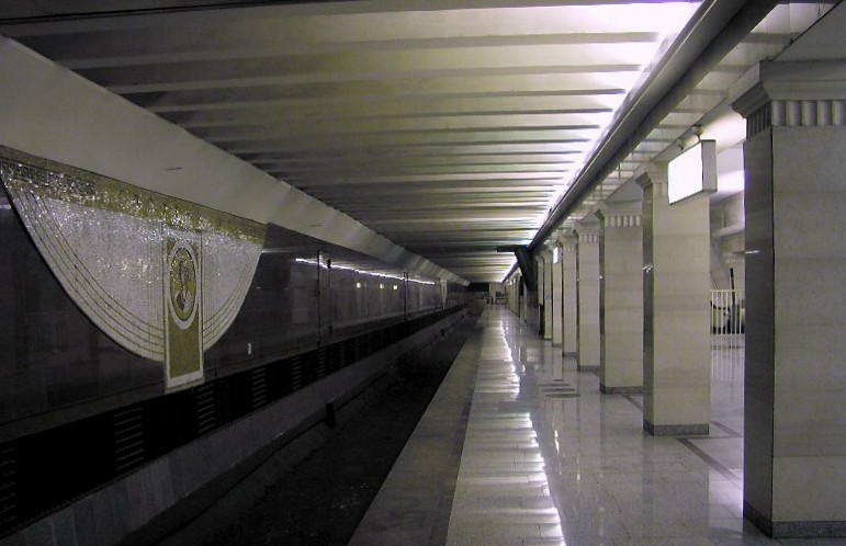 en: Description: Sportivnaya metro station, St. Petersburg, Russia. Built in 1997, this two-level Ancient Greek themed station became one of the most beautiful in St. Petersburg metro Author: Paranoid Date: unknown Licence: public domain de: Beschreibung: Die St. Petersburger Metrostation Sportiwnaja Autor: Paranoid Datum: unbekannt Lizenz: public domain / gemeinfrei